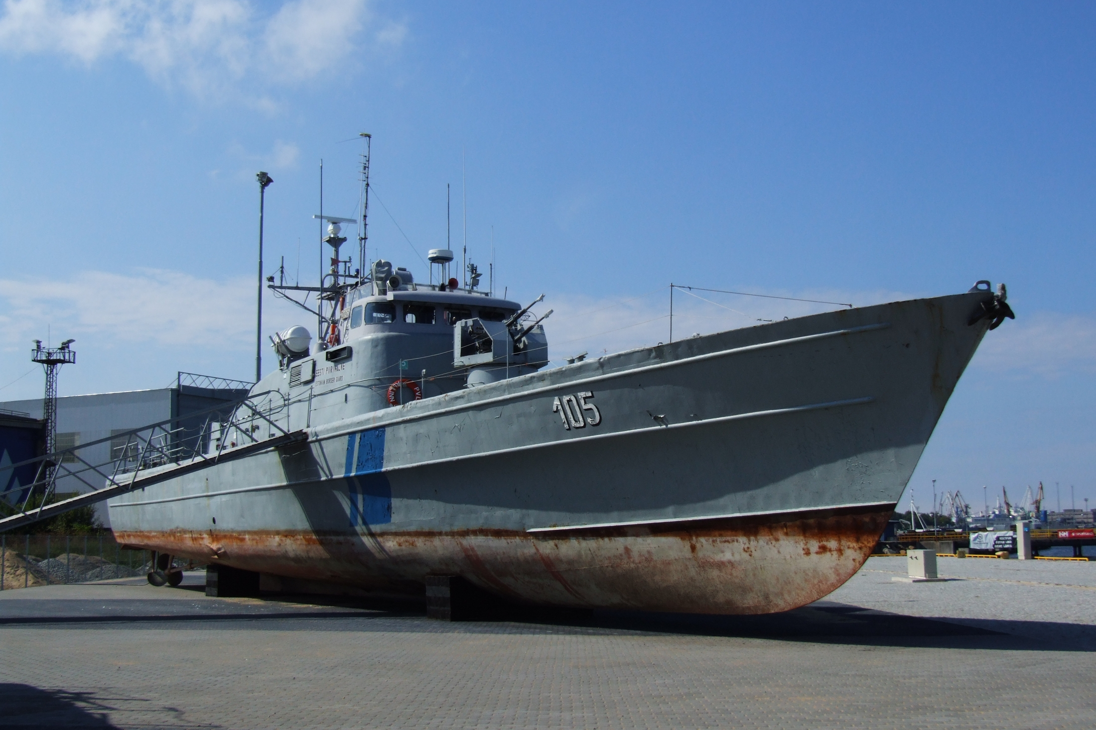 The border patrol boat PVL 105 Torm, Tallinn, previously KNM «Arg», Royal Norwegian Navy